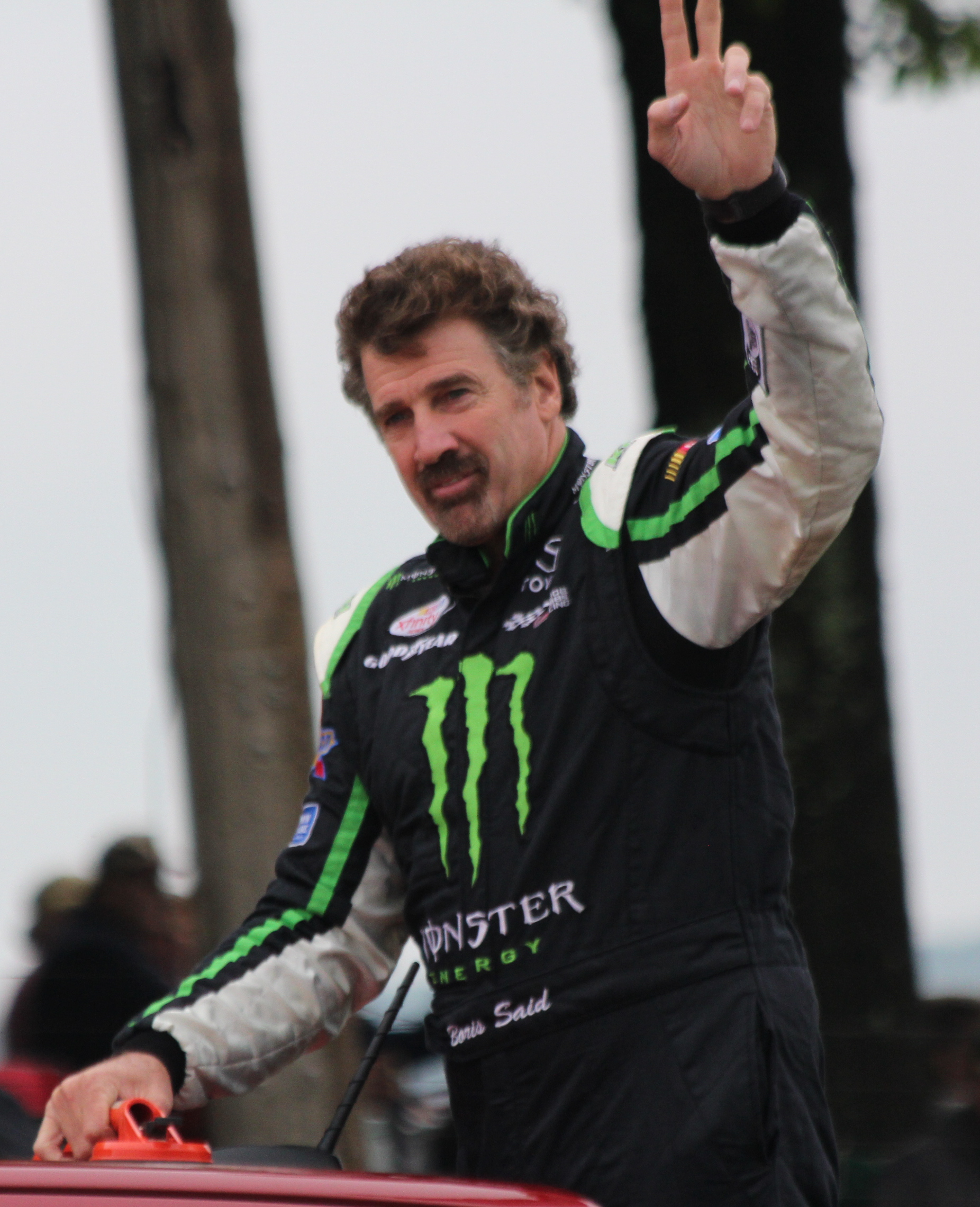 NASCAR driver Boris Said waves to the crowd during drivers introduction at the Xfinity Series race at Road America.